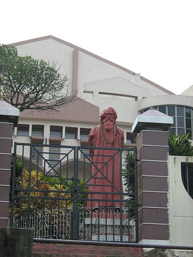 Rabindra Bhavan- The only new closed auditorium in shyamnagar ,used for concerts and public meetings. The structure was created after demolishing the Old Sanskrit College of Shyamnagar. Situated beside river hooghly in Shyamnagar.